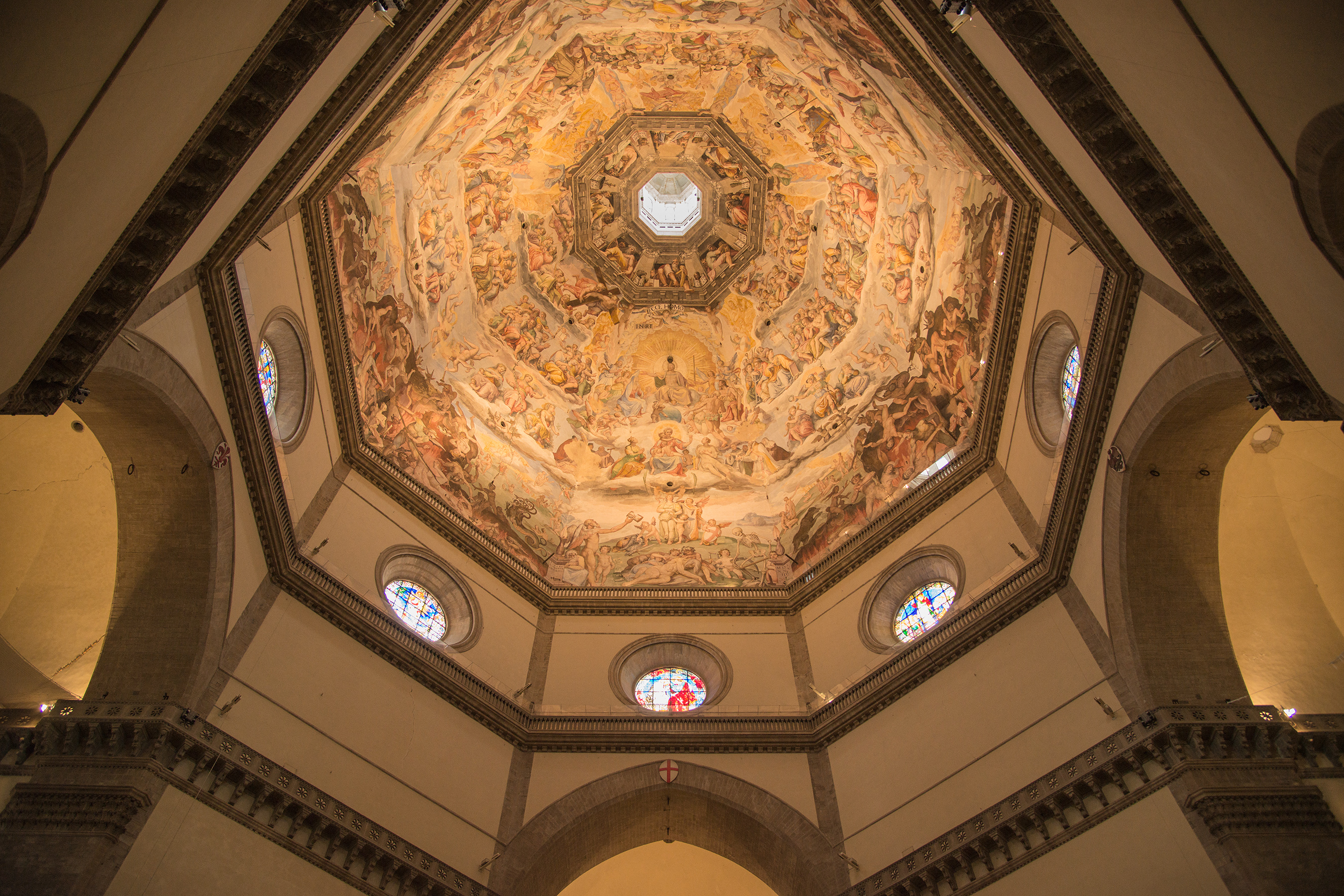 Interior of the dome